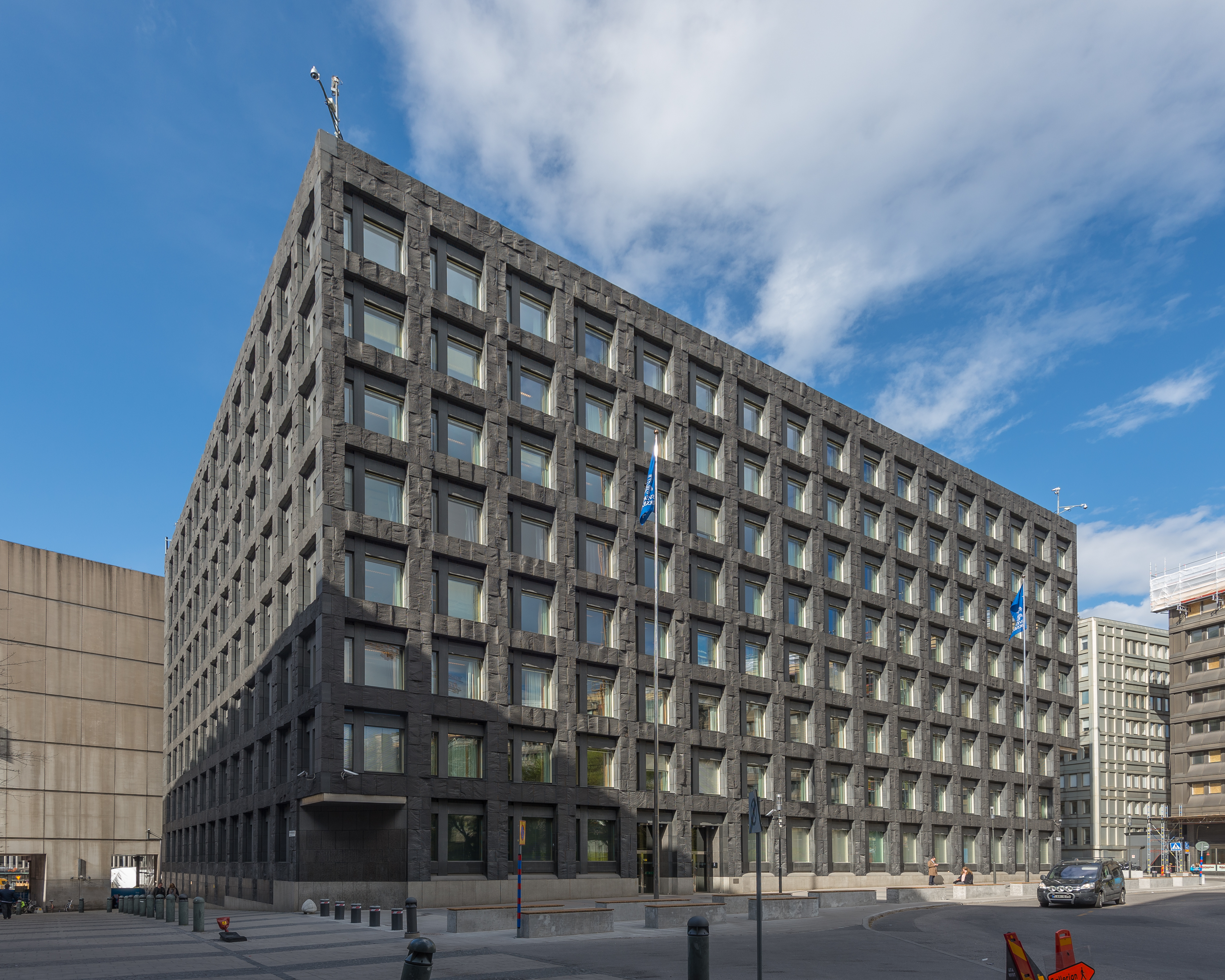 Riksbankshuset, headquarter of Swedish National Bank. Inaugurated 1976. Architect: Peter Celsing.